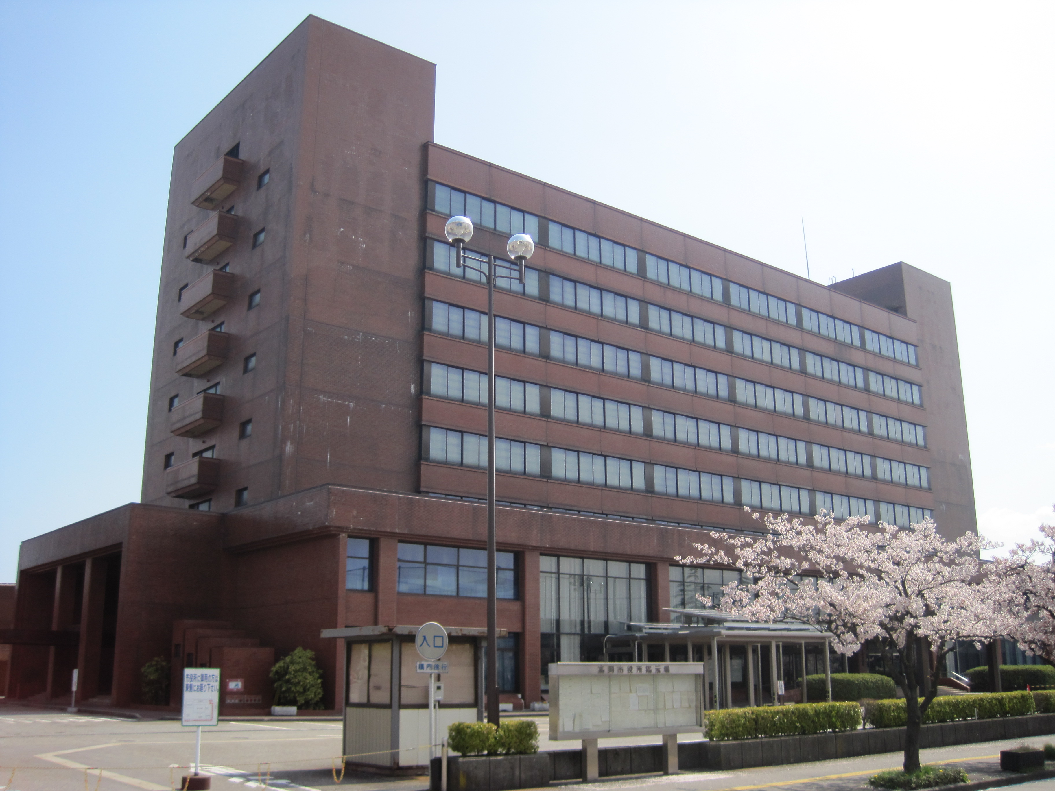 Takaoka City Hall(Takaoka city, Toyama prefecture, Japan)